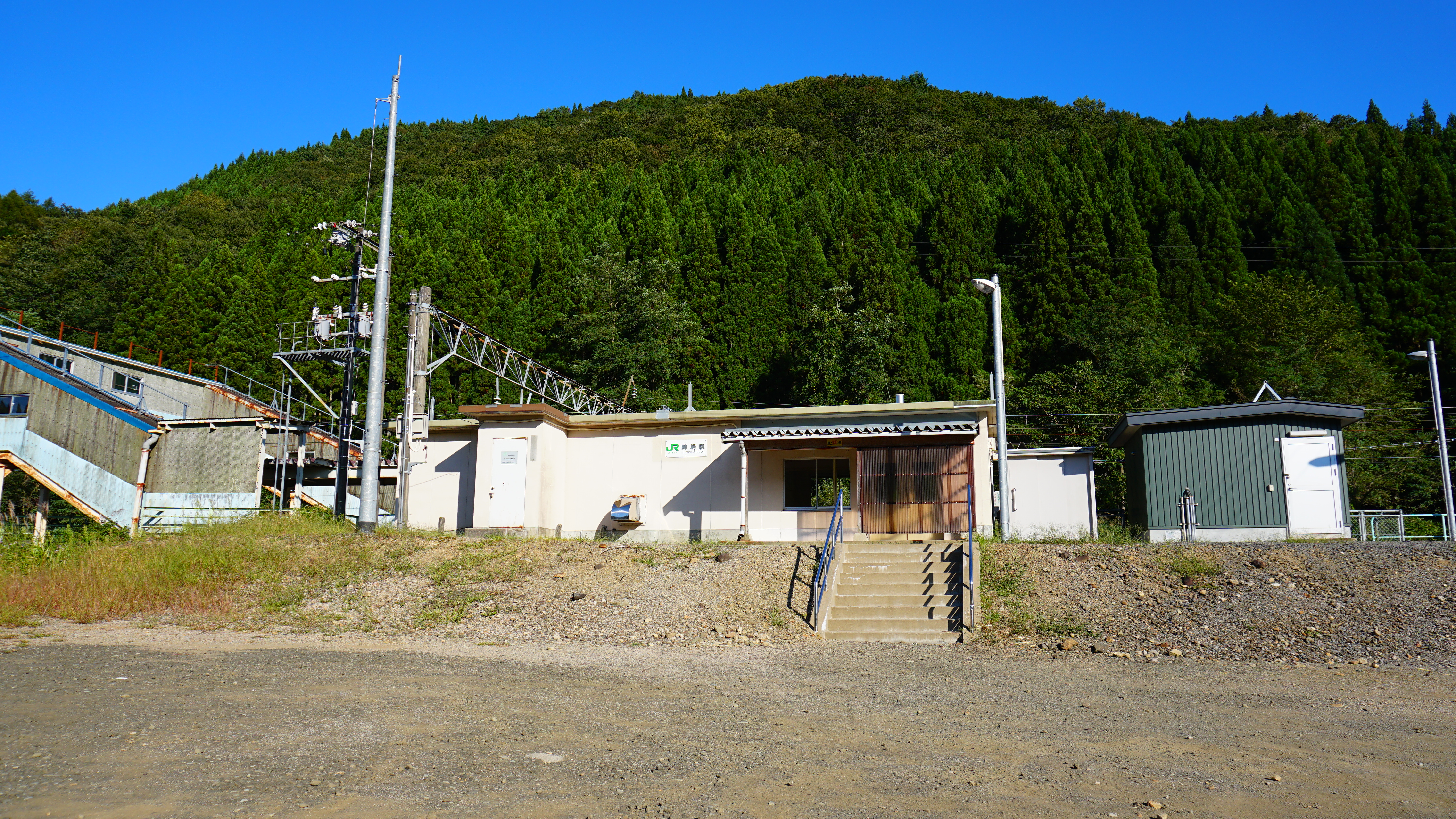 Jimba Station on the Ou Main Line in Odate City, Akita, Japan